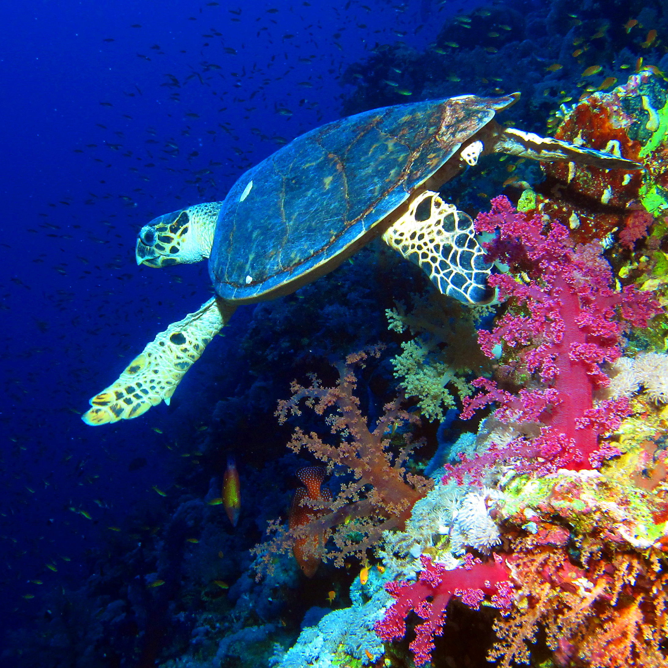 Hawksbill turtle at Elphinstone Reef, Red Sea, Egypt